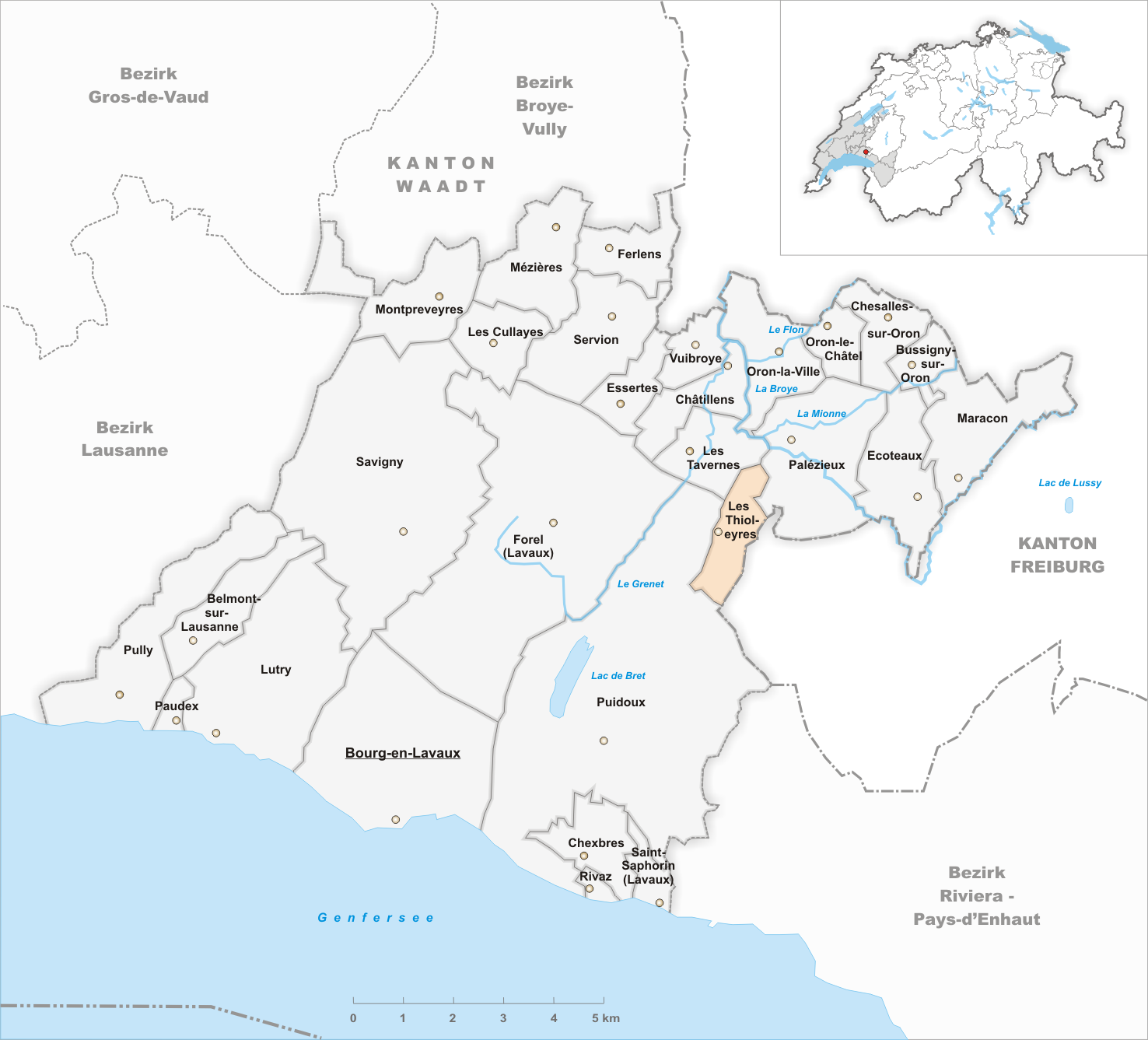 Municipality Les Thioleyres